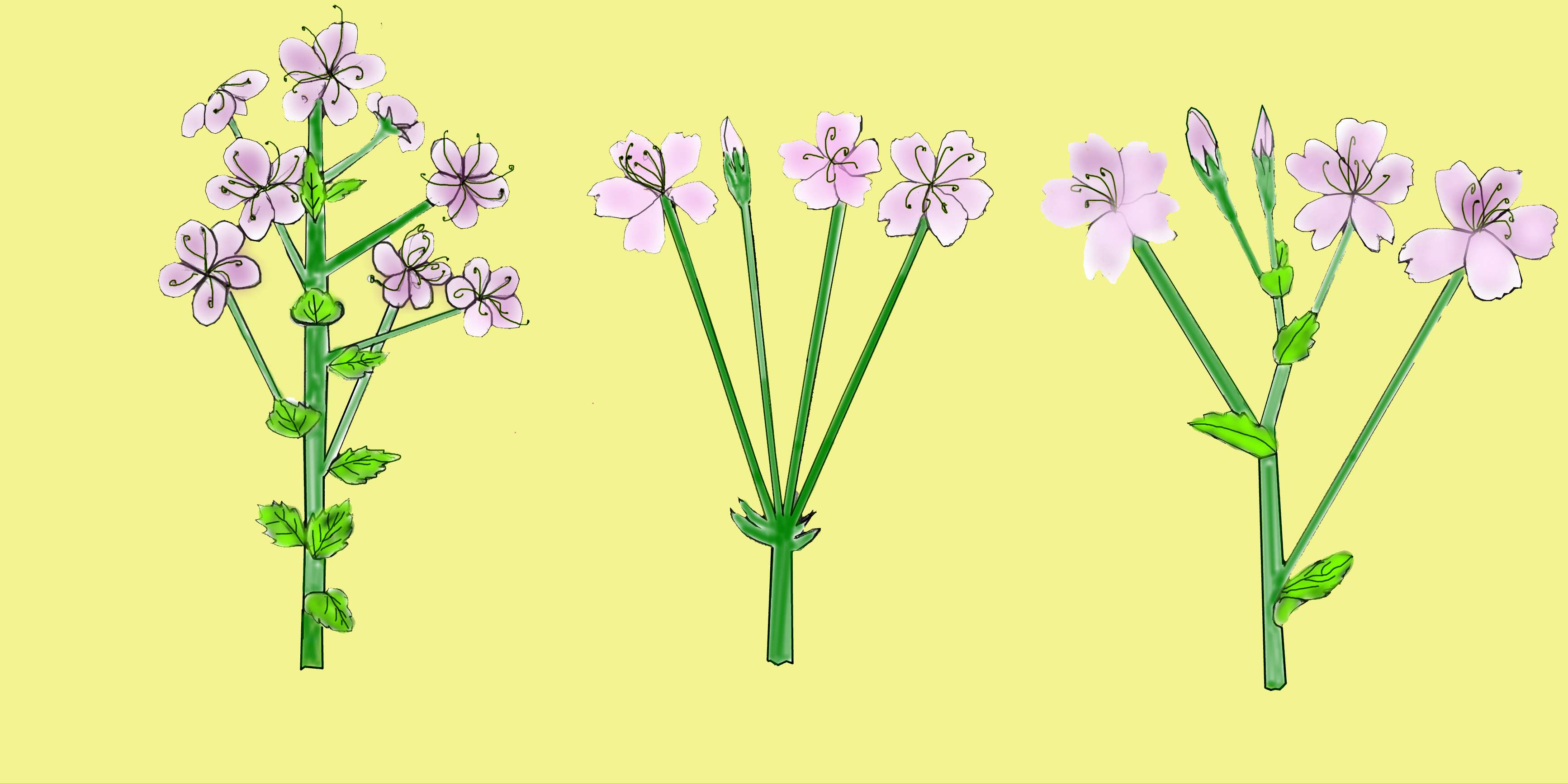 Inflorescence of sakura